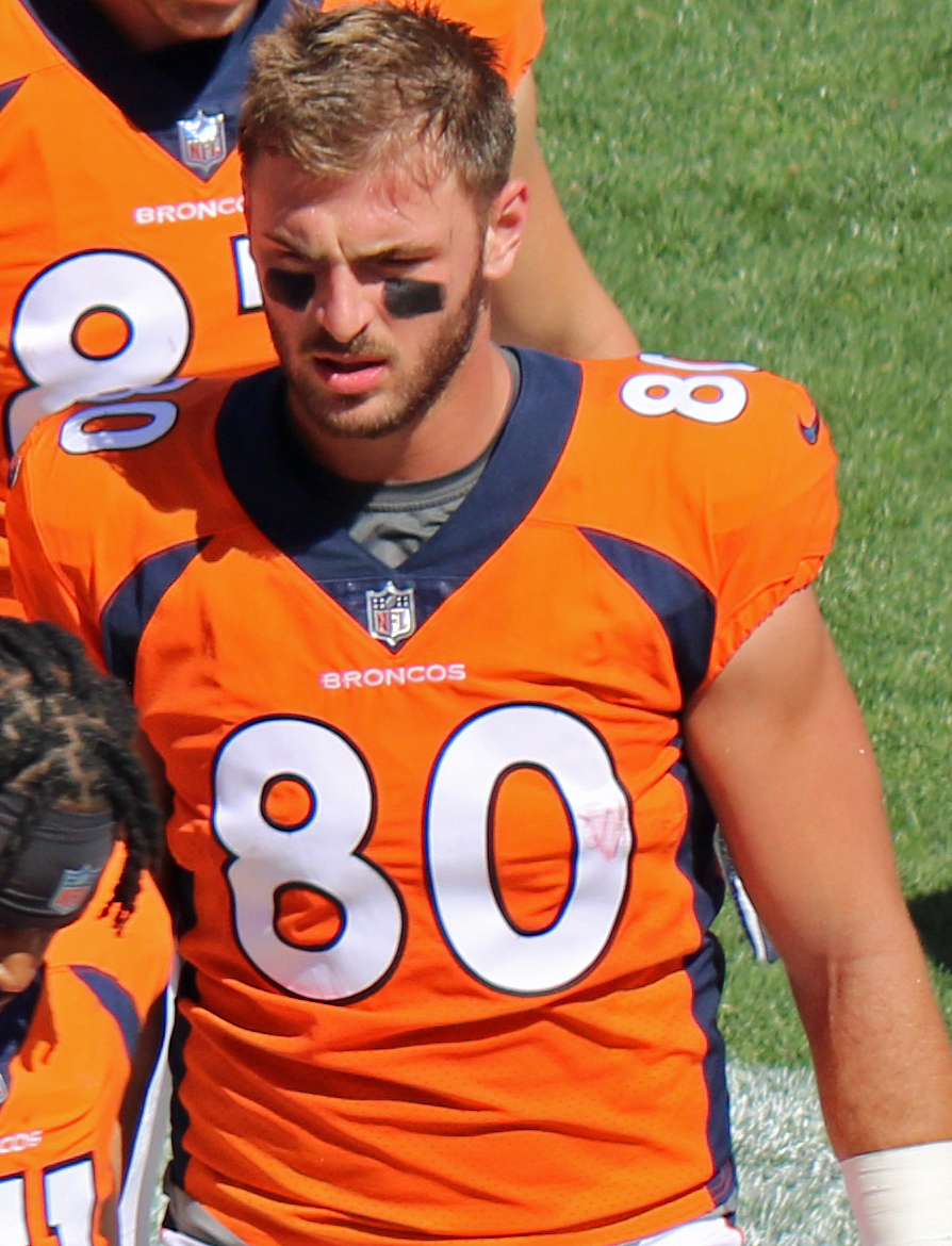 Jake Butt, a National Football League player.